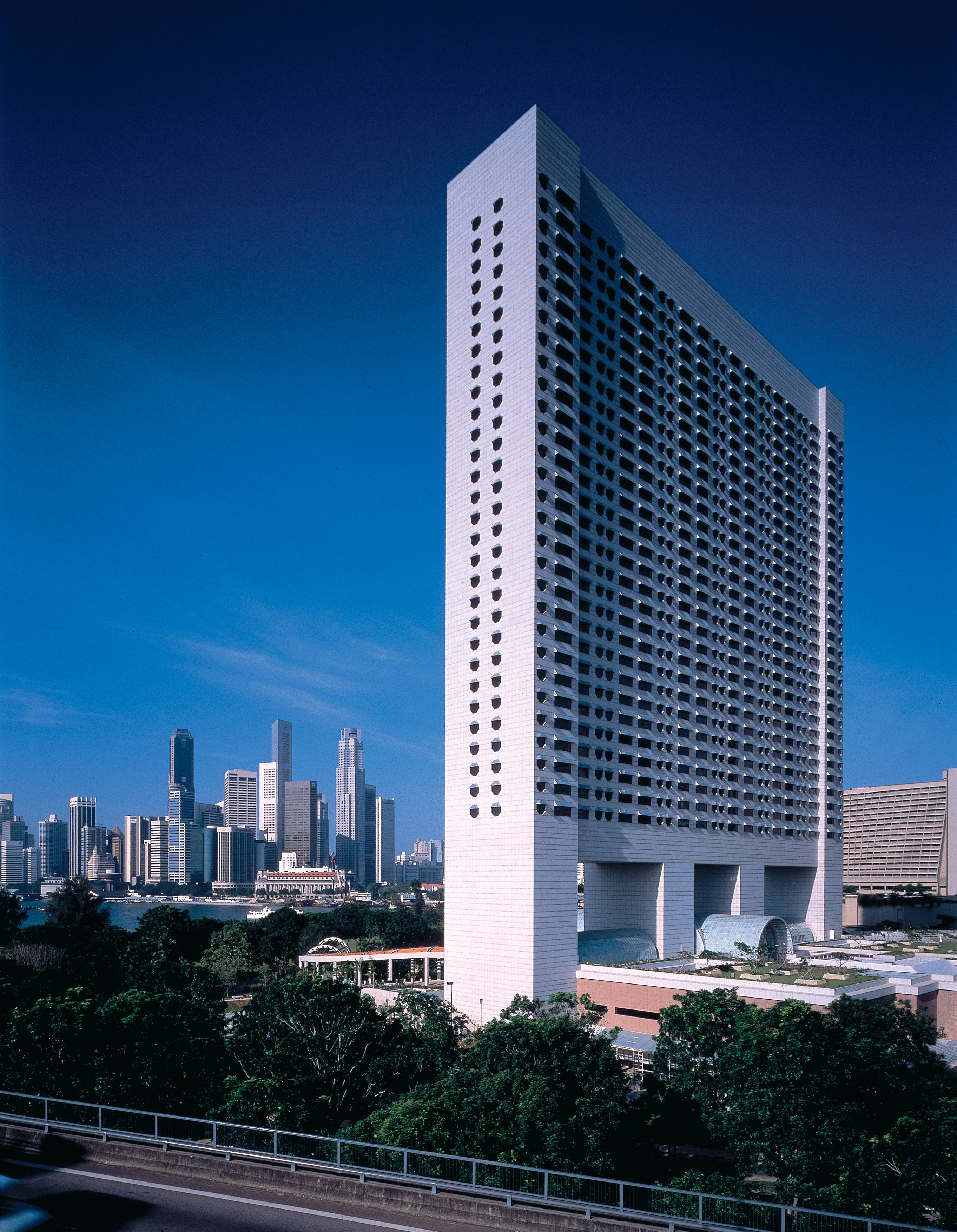 The Ritz-Carlton Millenia Singapore, located in the heart of Marina Bay, Singapore.